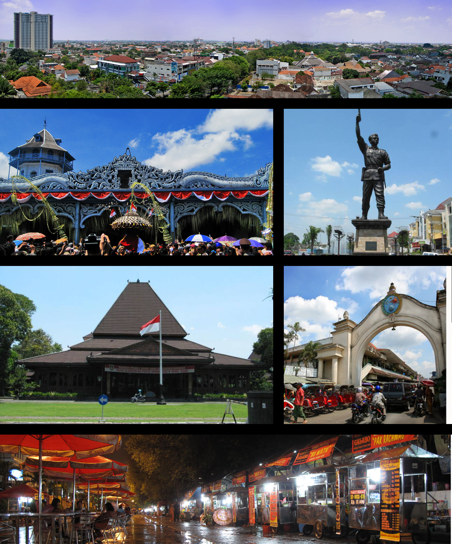 Collage of Surakarta, or colloquially: Solo